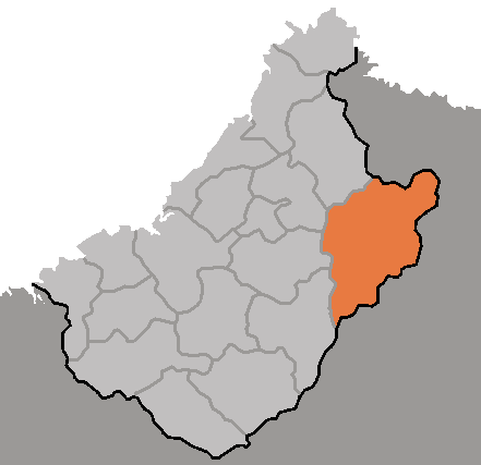 Map of Rangrim, Chagang-do, DPRK, 2006